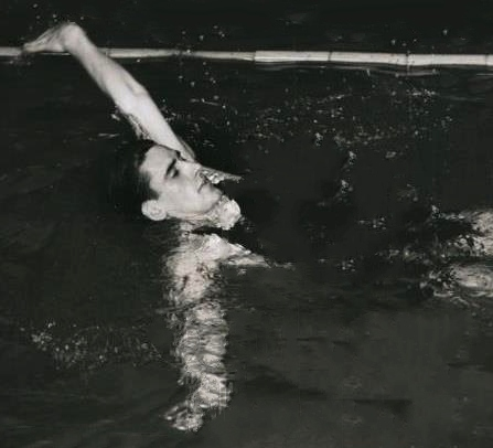 1938 Press Photo Albert Vande Weghe National AAU swimmeet in New Jersey